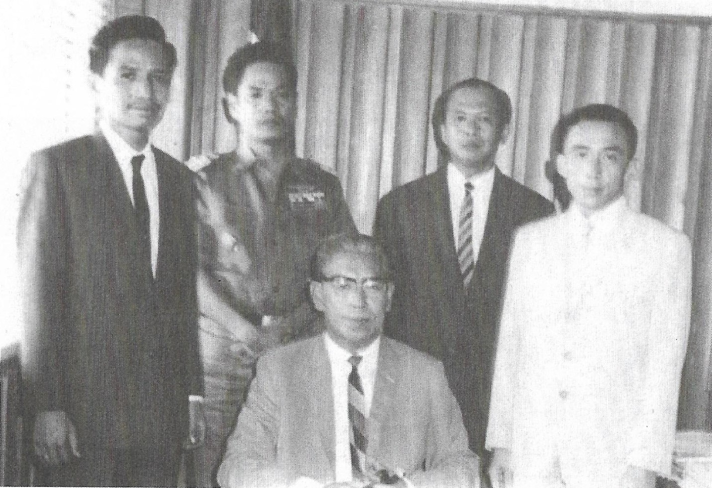 Ministers of the Industry and Development Section in the First Ampera Cabinet. Sitting in the chair is Sanusi Hardjadinata. From left to right (standing): Sutami, Mohammad Jusuf, Sanusi, and Bratanata